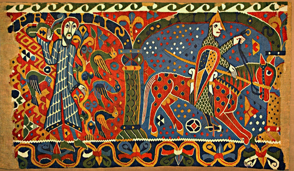 Baldisholteppet (Replica), Norvegian tapestry from Roman times. Fragment depicting April and May.